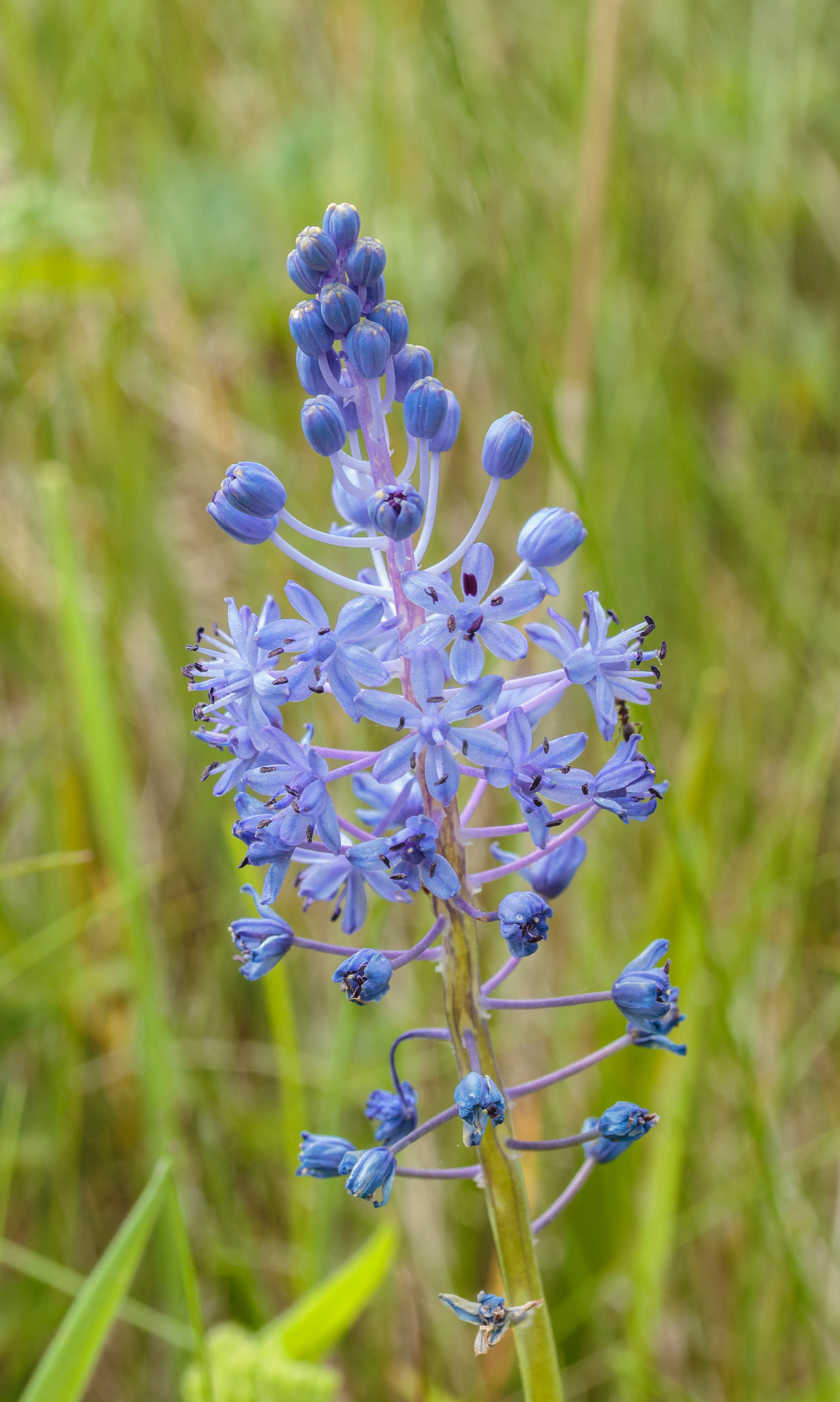 Hortus Haren. Scilla pratensis asparagaceae. Flowers and flower buds of this beautiful blue spring flowering.